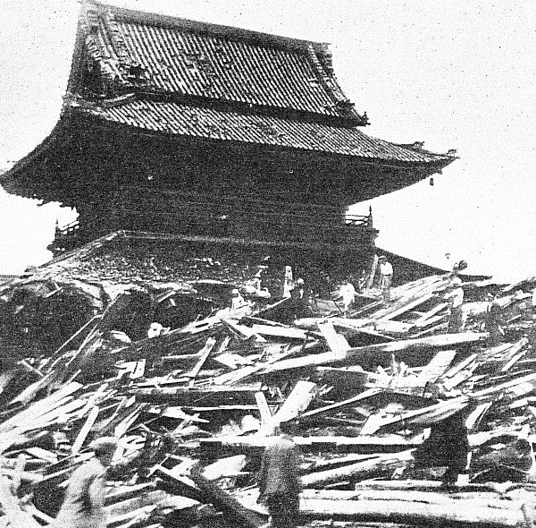 1934 Typhoon Muroto damage at Shitenno-ji